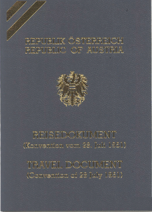 Austrian Travel Document for Refugees (Konventionsreisepass)